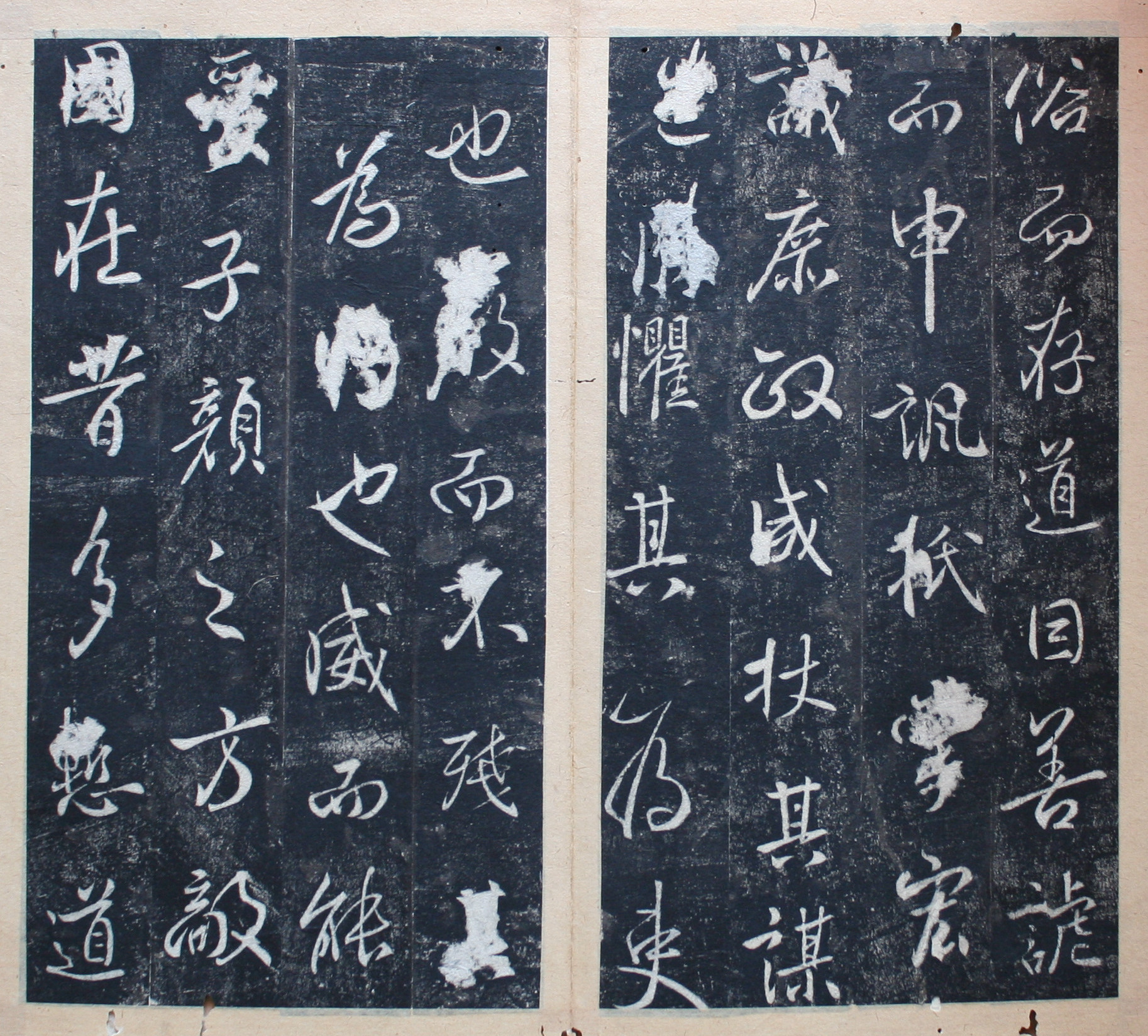 Rubbing of Tomb stele of Li Shiji(594-669) . Built in ACE677. Calligraphy by Emperor Gaozong of Tang(ACE628-683)